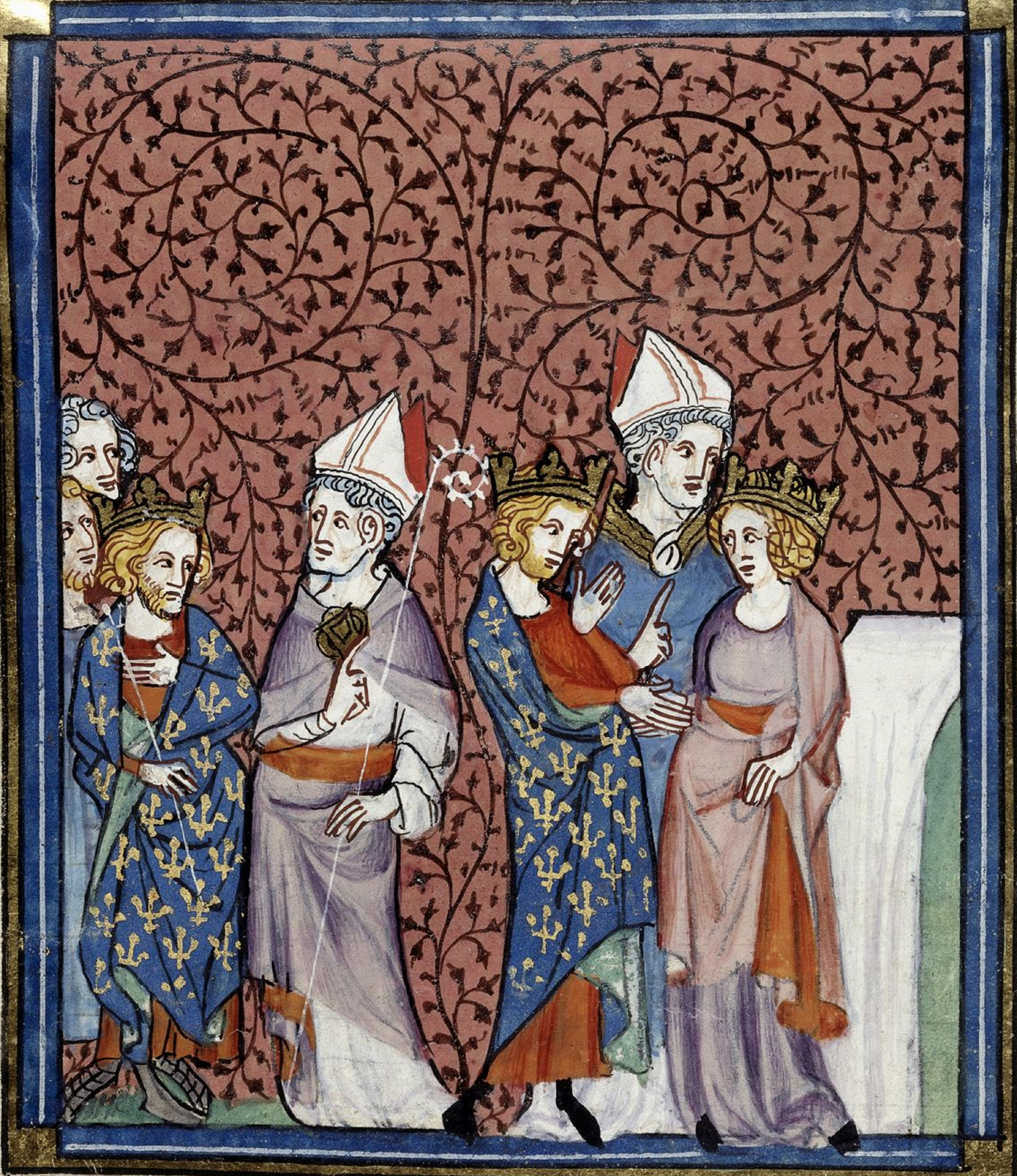 Henry I sending a bishop, and his marriage to Anne, Grandes chroniques de France, Royal 16 G.VI, f.269v, c. 1332-1350